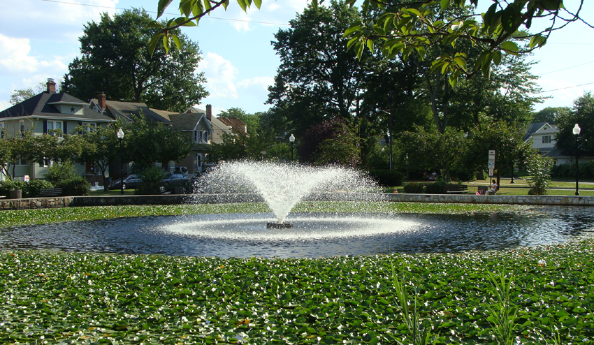 Pond at Halcyon Park, Bloomfield, New Jersey, Summer of 2011